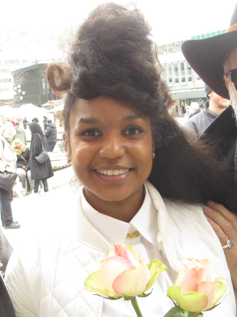 Ayesha Quraishi Place: Kista Cultural Center, Kista, Sweden